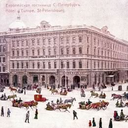 Image taken from the english Wikipedia ( Uploaded 23:47, 18 January 2006 by user:Ghirlandajo. Original image informations